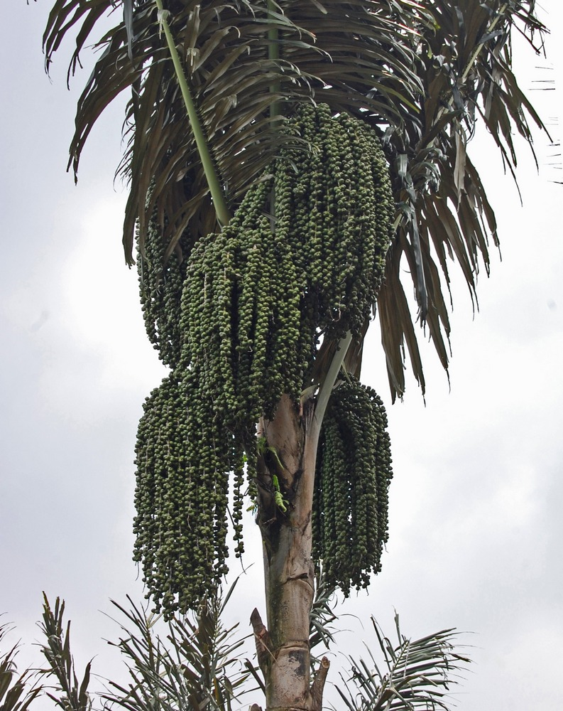 Young fruits of Arenga pinnata. Sirnarasa, Sukabumi, West Java, Indonesia